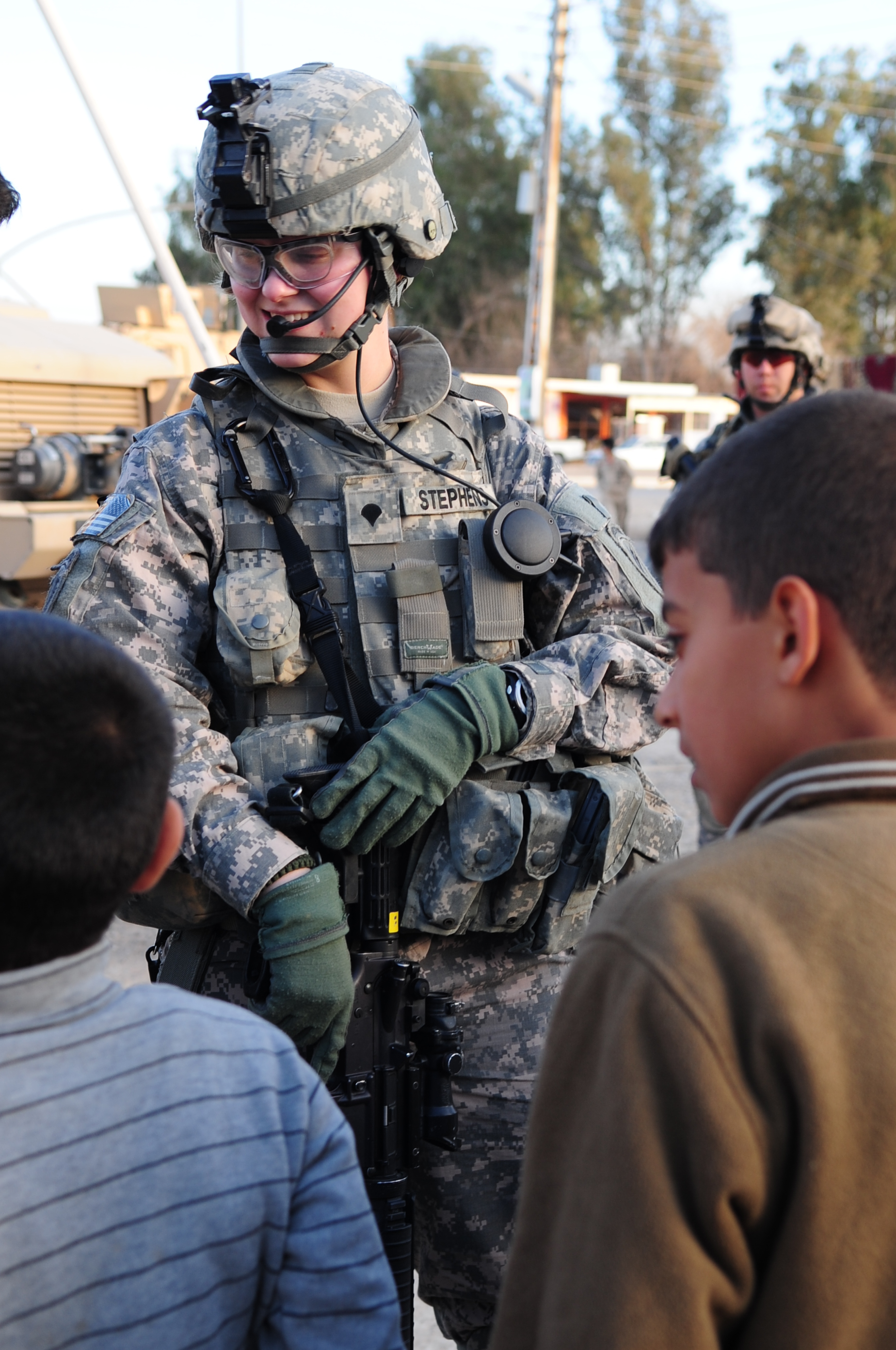 U.S. Army Spc. Cassie Stephens from Elkhard, Ind., assigned to Alpha Company, 490th Civil Affairs Battalion, Civil Affairs Team 12, 3rd Brigade Combat Team, 25th Infantry Division, talks with kids from Samarra, Iraq during a patrol through the city on Feb. 3.